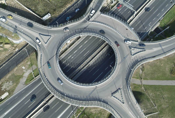 Roundabout, Hungary, Budaörs, aerial photographyKároly király utcai (81101-es út) felüljáró